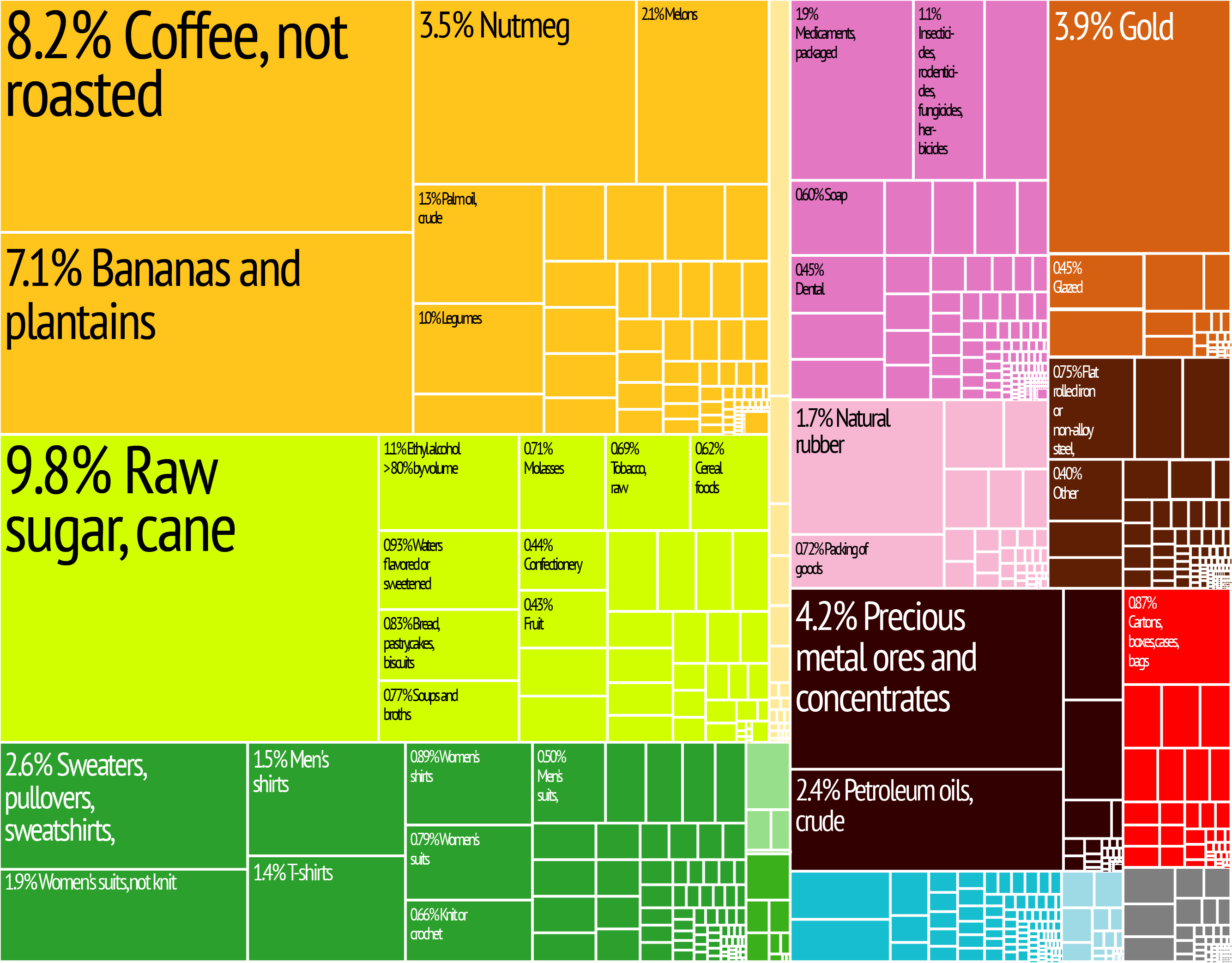 Guatemala Export Treemap from MIT Harvard Economic Complexity Observatory